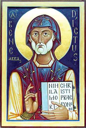 St. Benedict (ortodox icon); iscriptions "Benedictus abbas", "Nihil amori Christie praeponere" {Regula Benedicti 4,21)